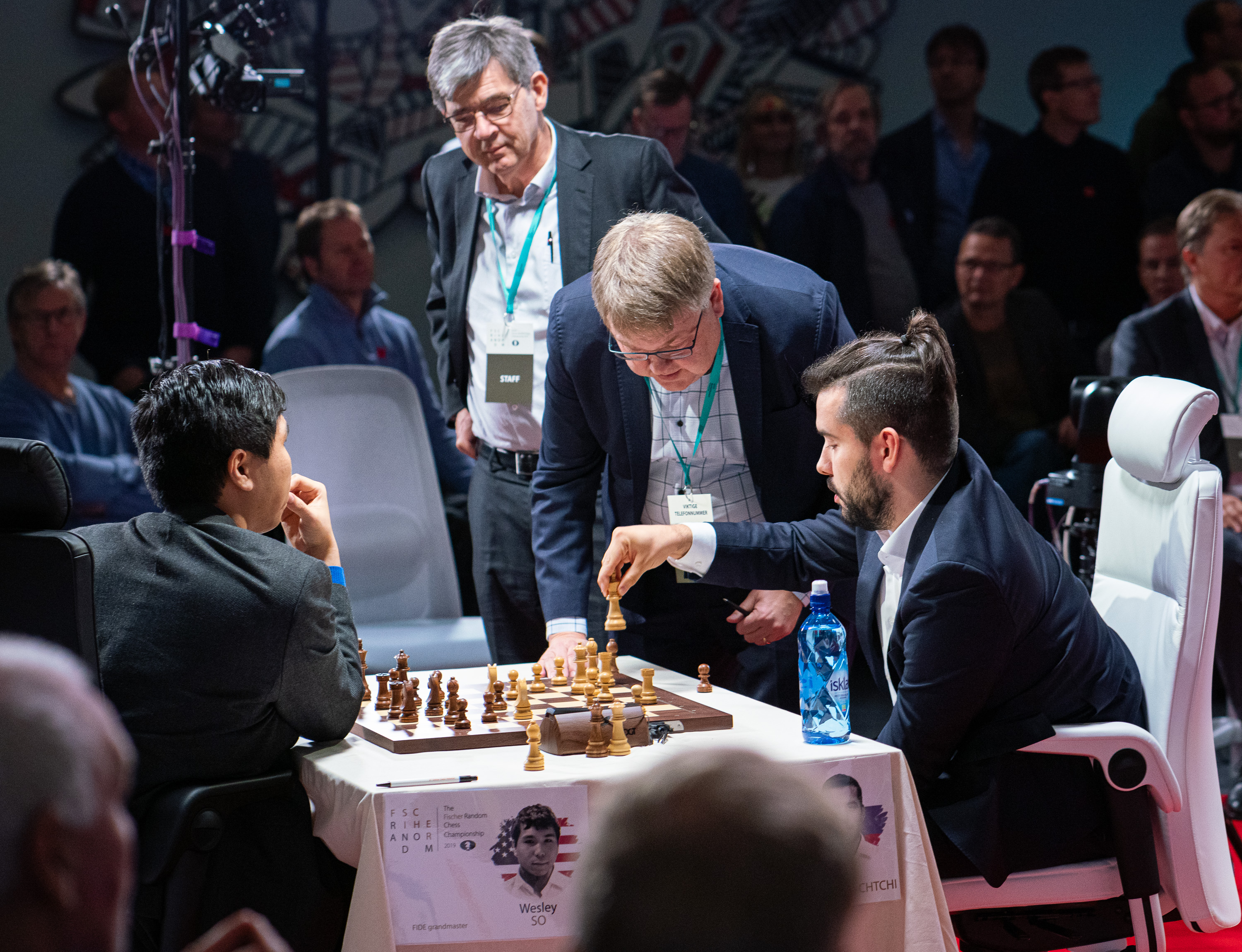 FIDE FR WCH - Nepomniachtchi problems when lifting Rook before King when castling